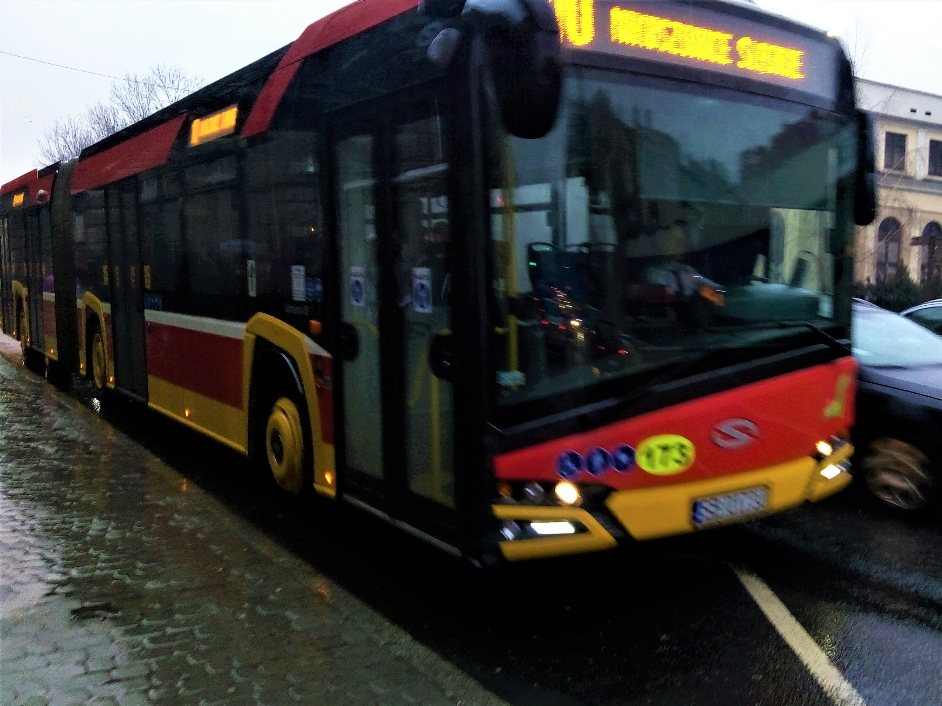 Solaris Urbino 18 IV generation No. 173 MZK Bielsko-Biała (Poland), arriving in "Hotel Prezydent" bus stop (line 10 direction Mikuszowice Śląskie)